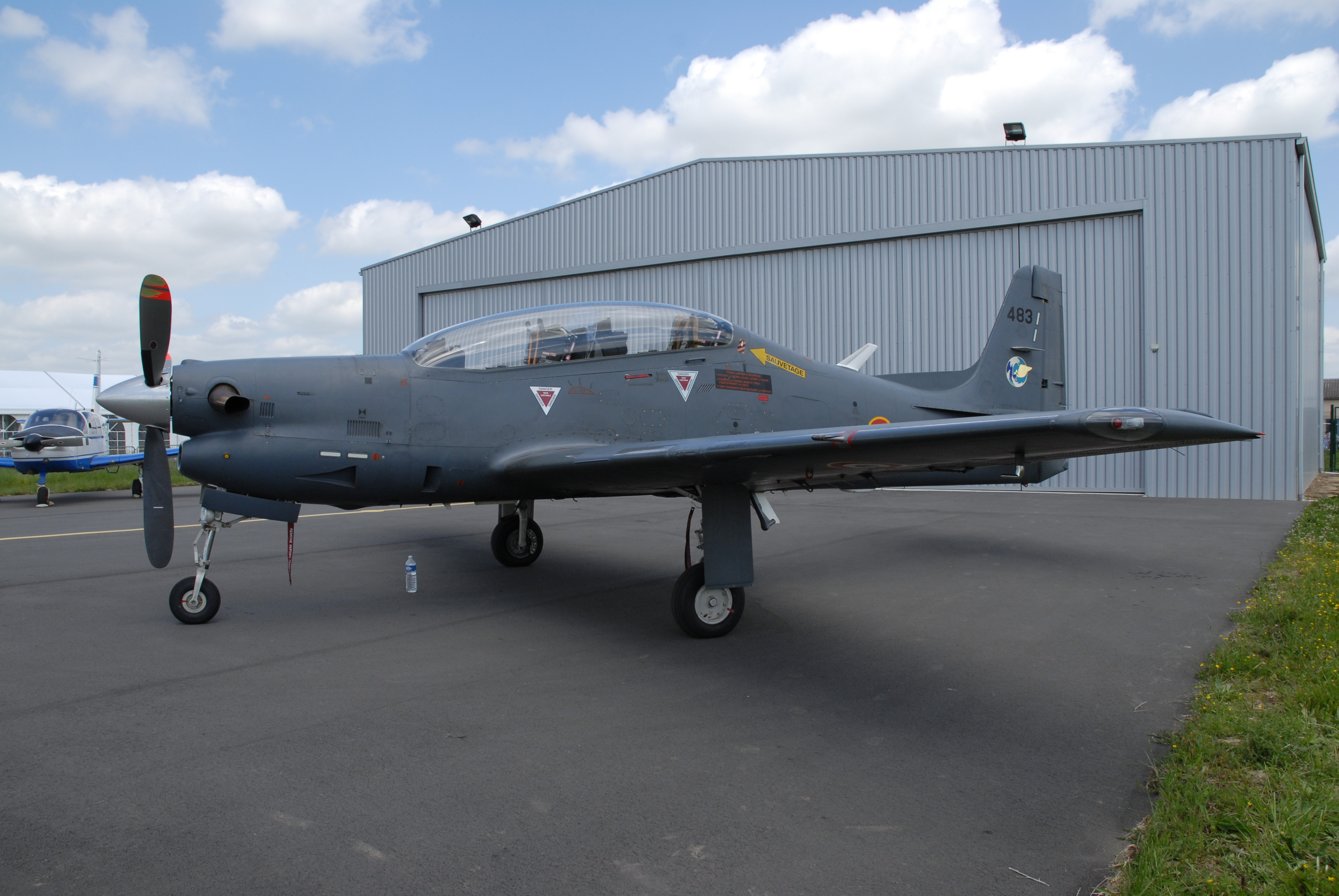 Embraer EMB 312 Tucano Manufacturer Embraer (Brazil) Model Embraer EMB 312 Tucano Type military training Characteristics two-seater Registration ID 312-UB